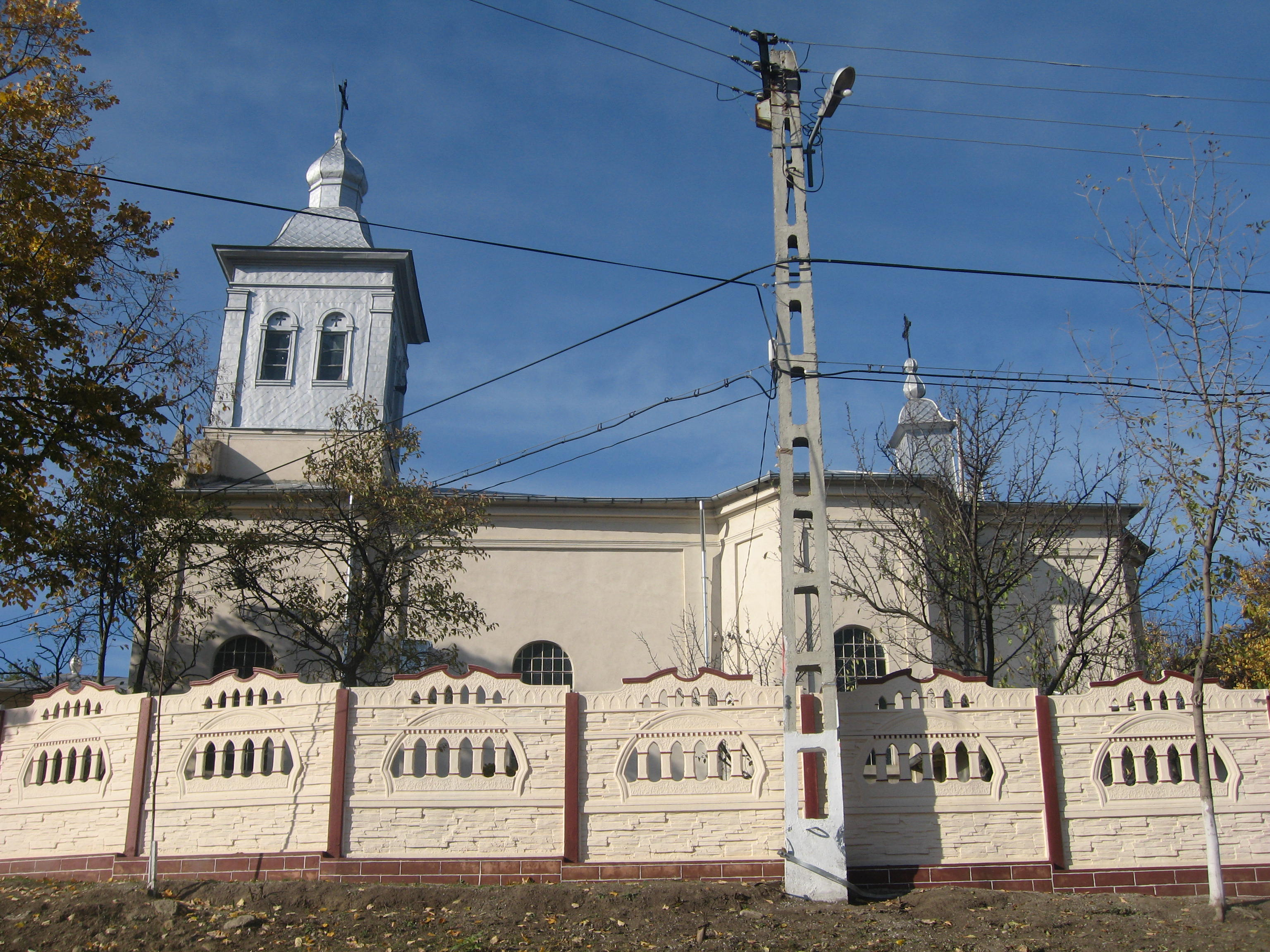 Biserica Sfinţii Voievozi din Cozmeşti